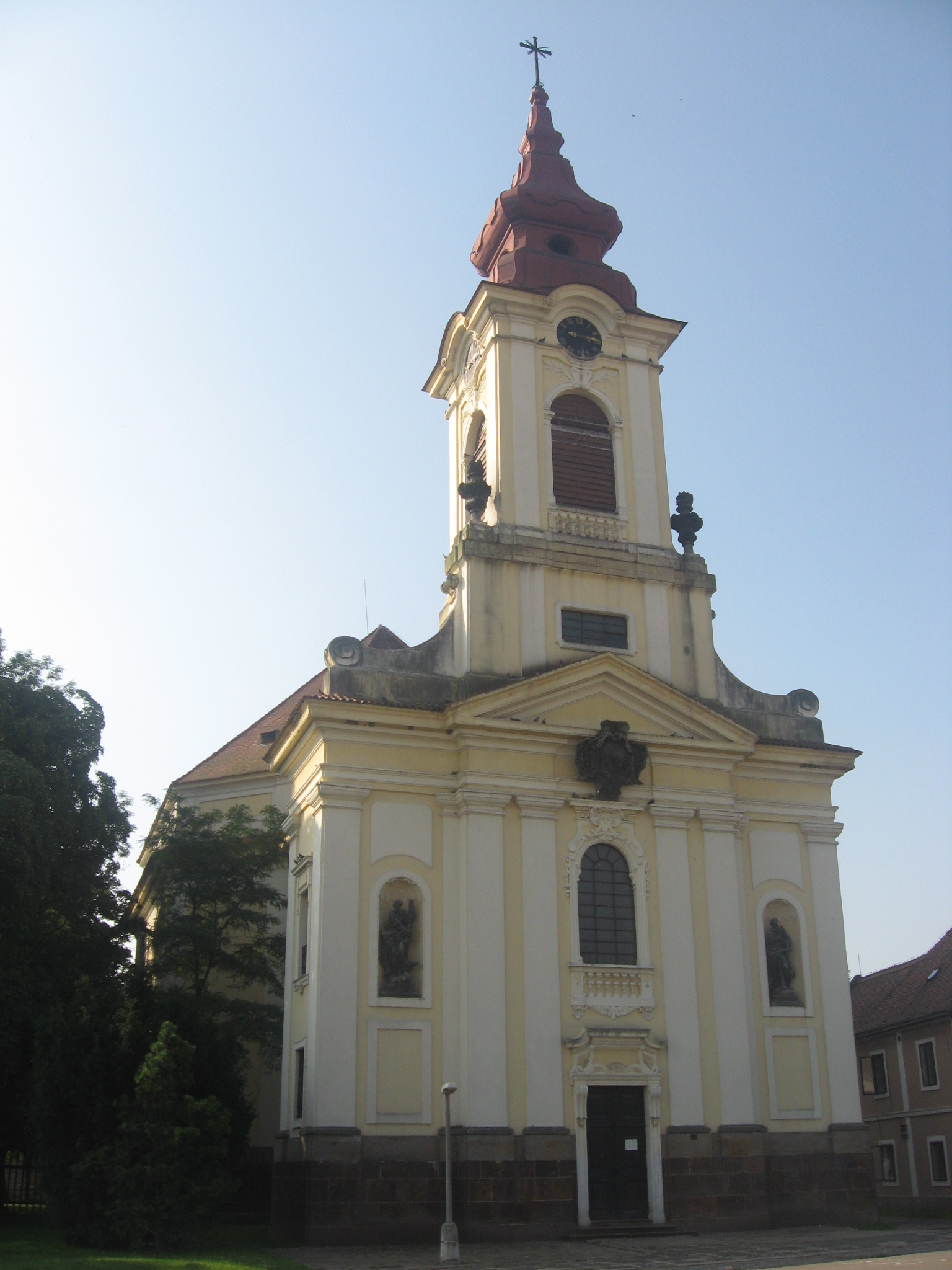 Church of the Assumption in Postoloprty, Louny District, Czech Republic